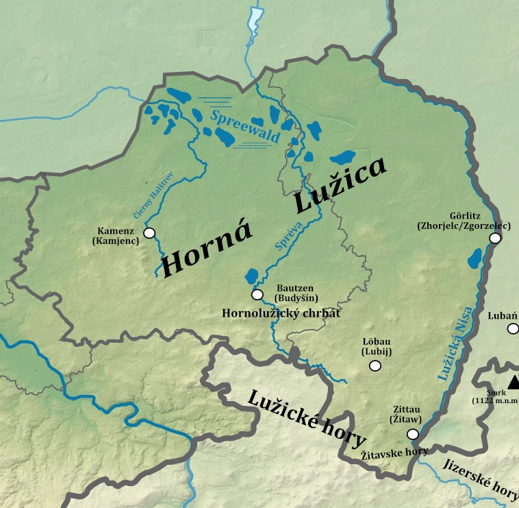 Horná Lužica